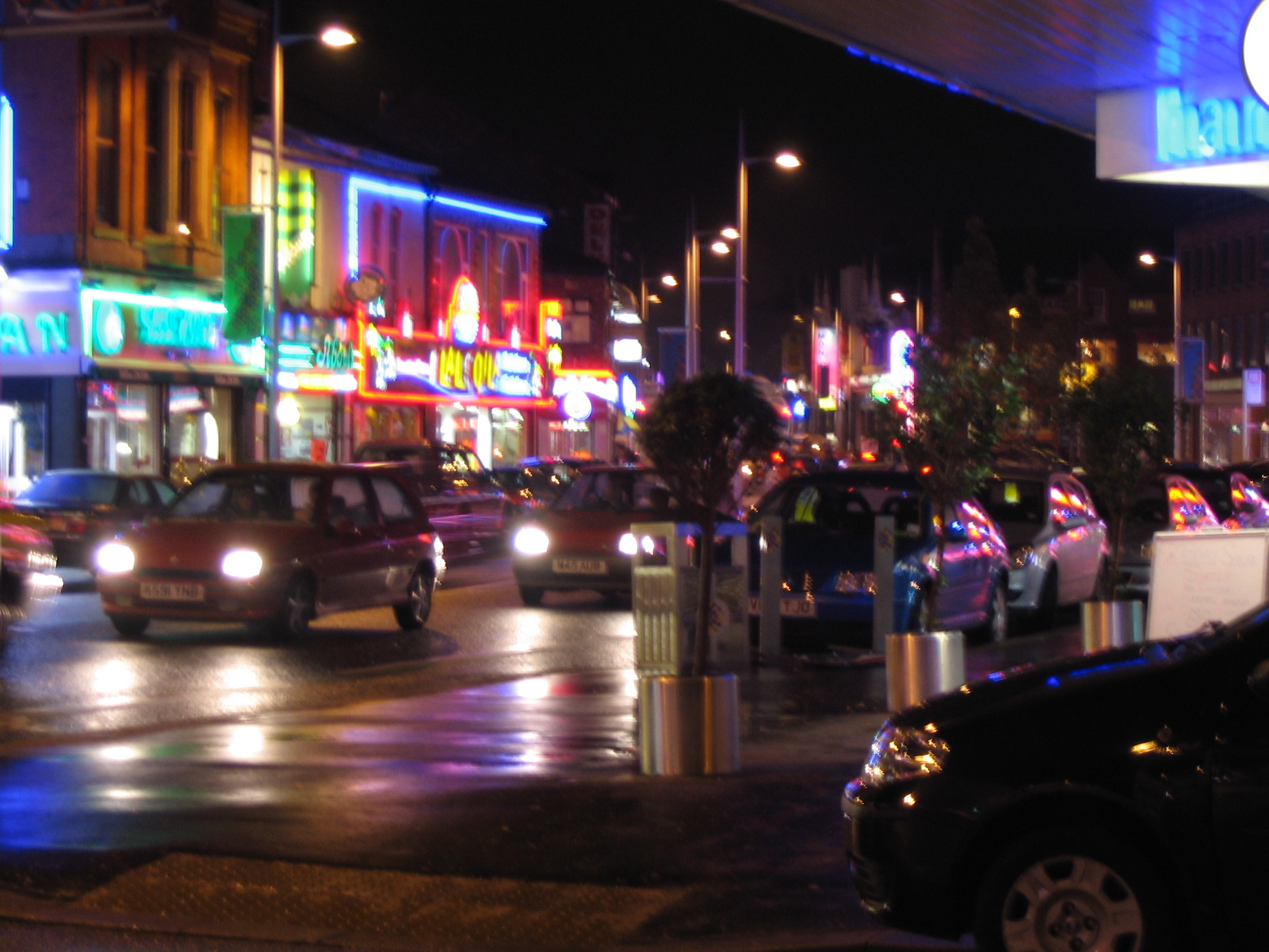 Photograph of the 'Curry Mile' at nighttime